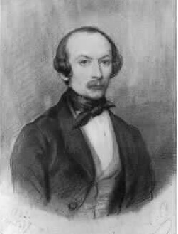 Self-portrait at the age of 36 by Louis Boulanger (1842)